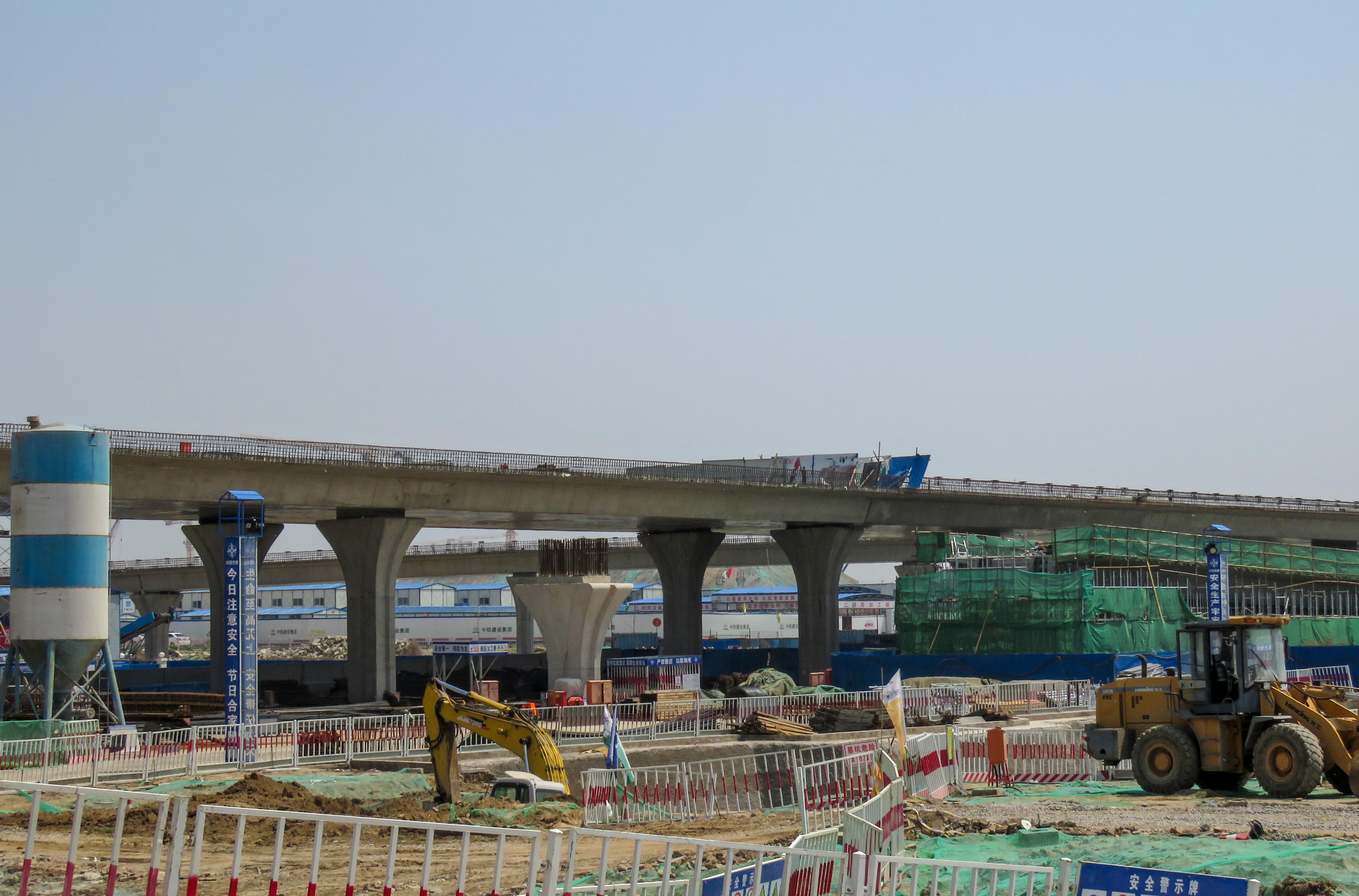 No access to (or didn't find?) the terminal, so the only choice is going north.